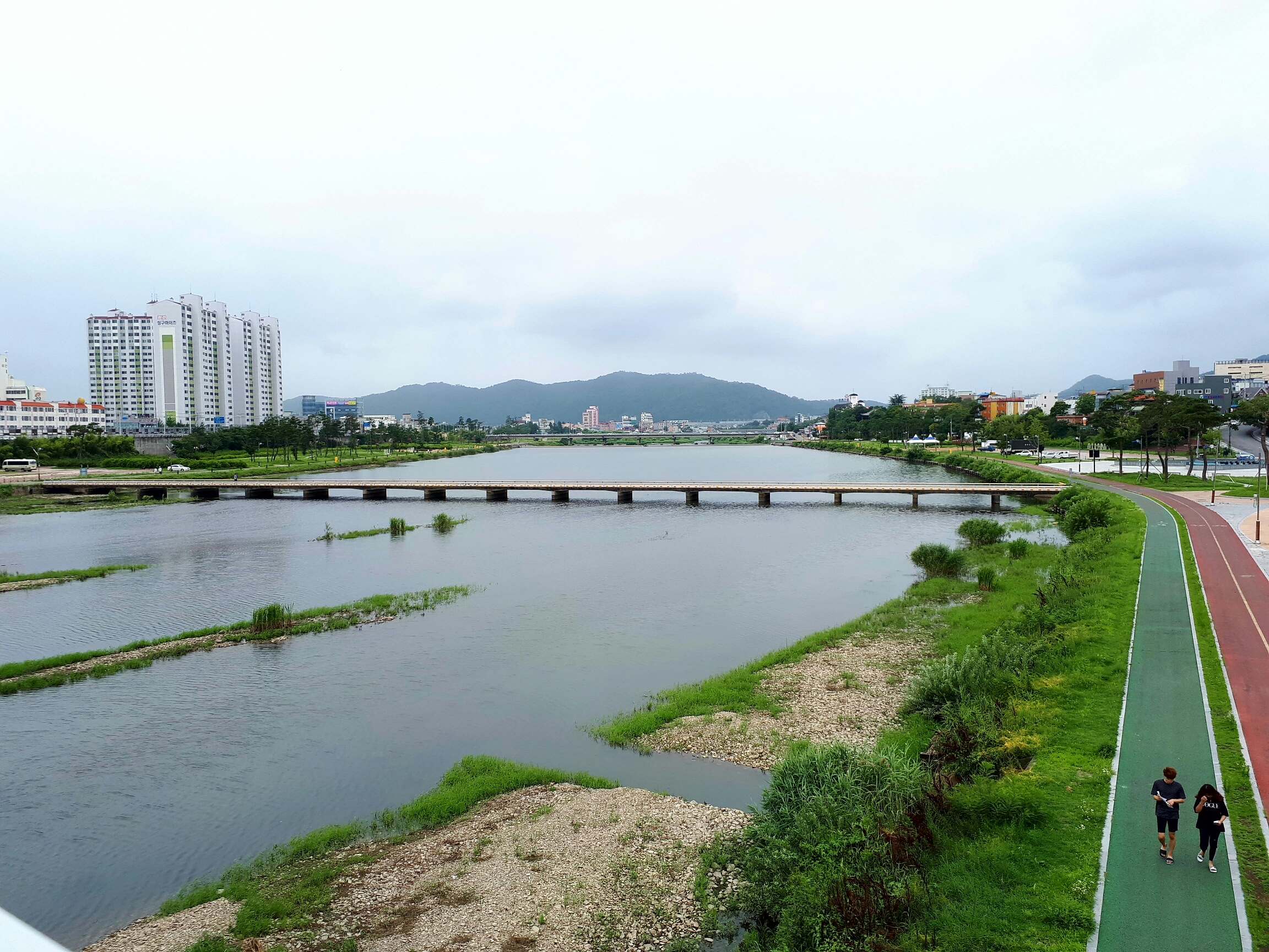 Geumho-gang(river), Yeongcheon City